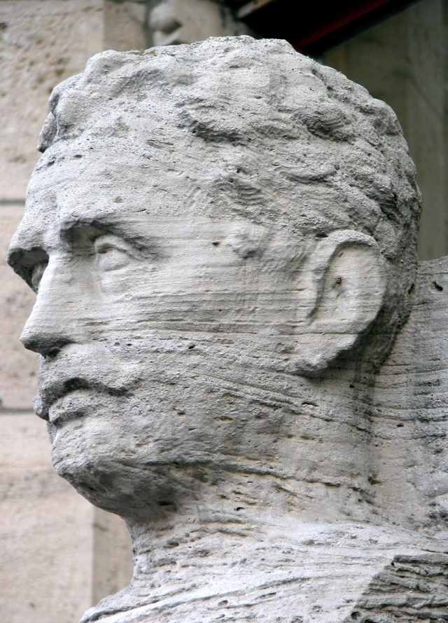 Brunswick: Heinrich Jasper, several times Prime Minister of the Free State of Brunswick, social democratic politician. Murdered in February 1945 in Bergen-Belsen concentration camp by national socialists. Sculpture from 1951 by Jakob Hofmann.